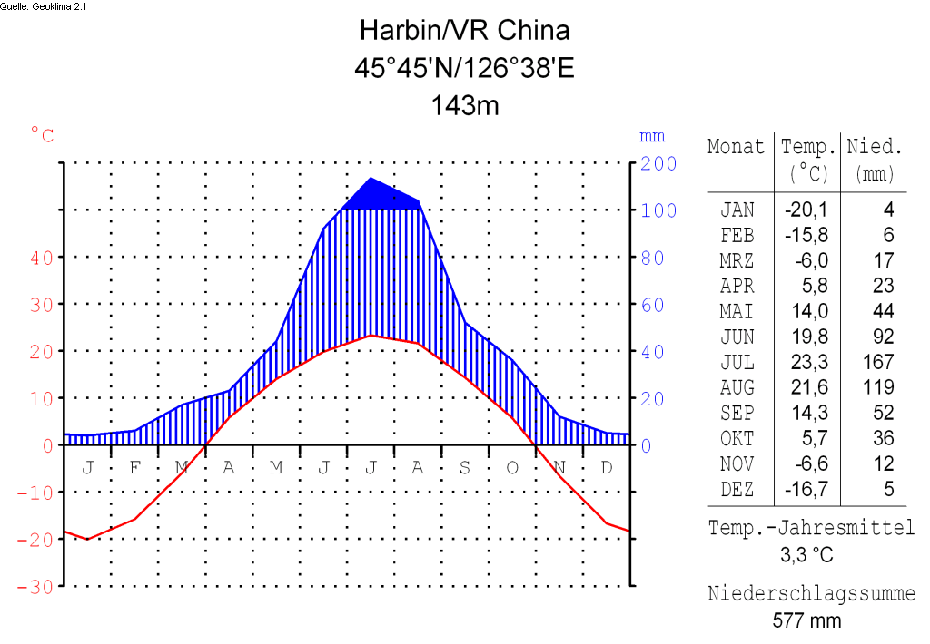 climate chart in the format by Walter and Lieth, metric, °Celsisus and millimeters, made with Geoklima 2.1